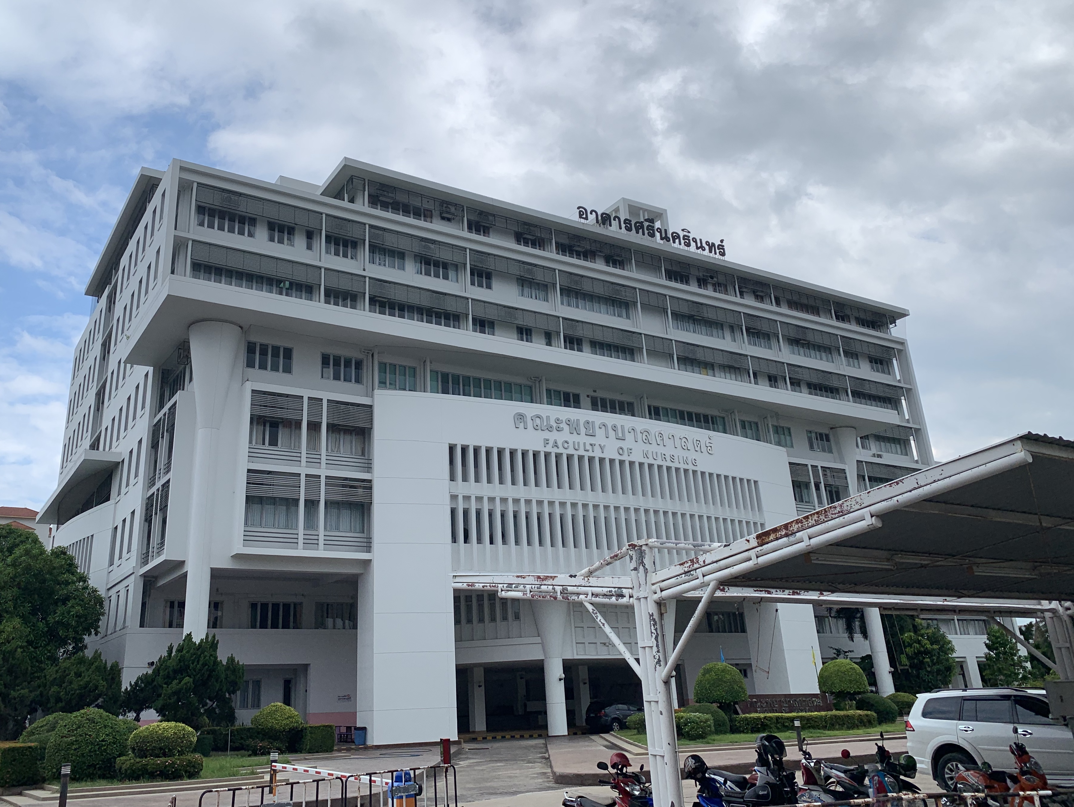 Srinakharin Building, Faculty of Nursing SWU Ongkharak